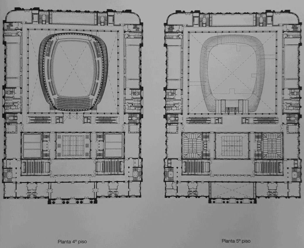 Palacio de Correos, proyecto centro cultural del Bicentenario